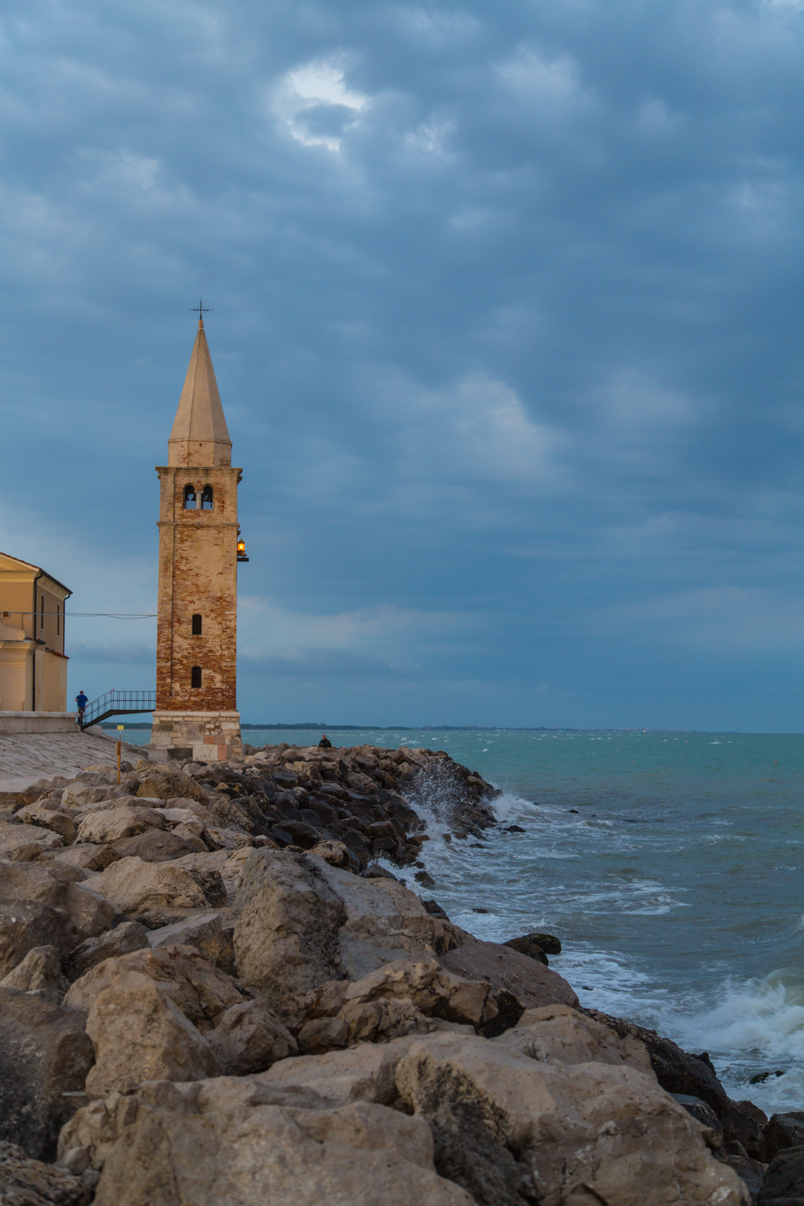 30021 Caorle, Metropolitan City of Venice, Italy